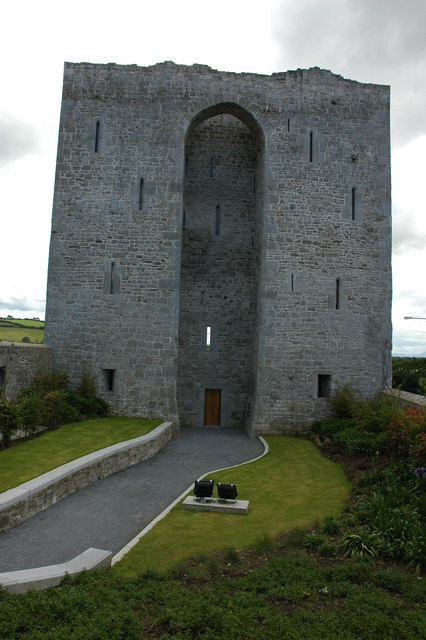 Listowel Castle